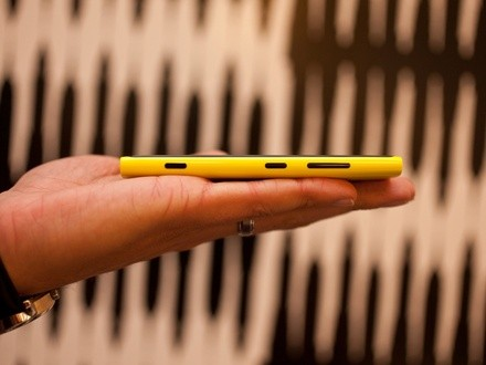 Nokia Lumia 920. Smartphone on the palms.